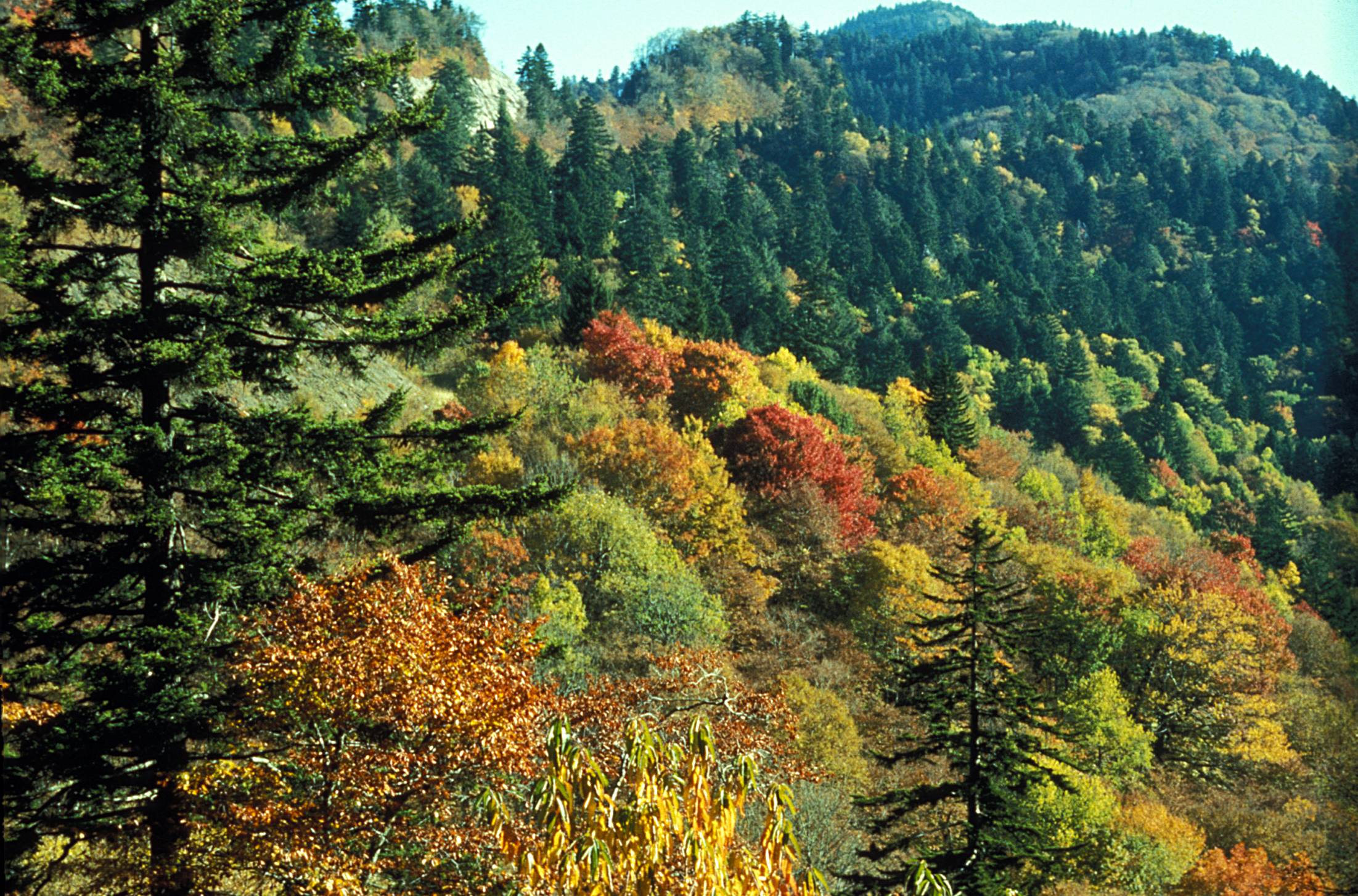 NPS image of the forest canopy near Newfound Gap. The trees in the foreground are deciduous trees known as "northern hardwoods," the leaves of which reflect the colors of autumn. As elevation increases in the distance, the region's two chief high-altitude conifer types-- the red spruce and Fraser fir-- become the dominant tree types, as they can bear much colder climatic conditions than the broad-leaved hardwoods.